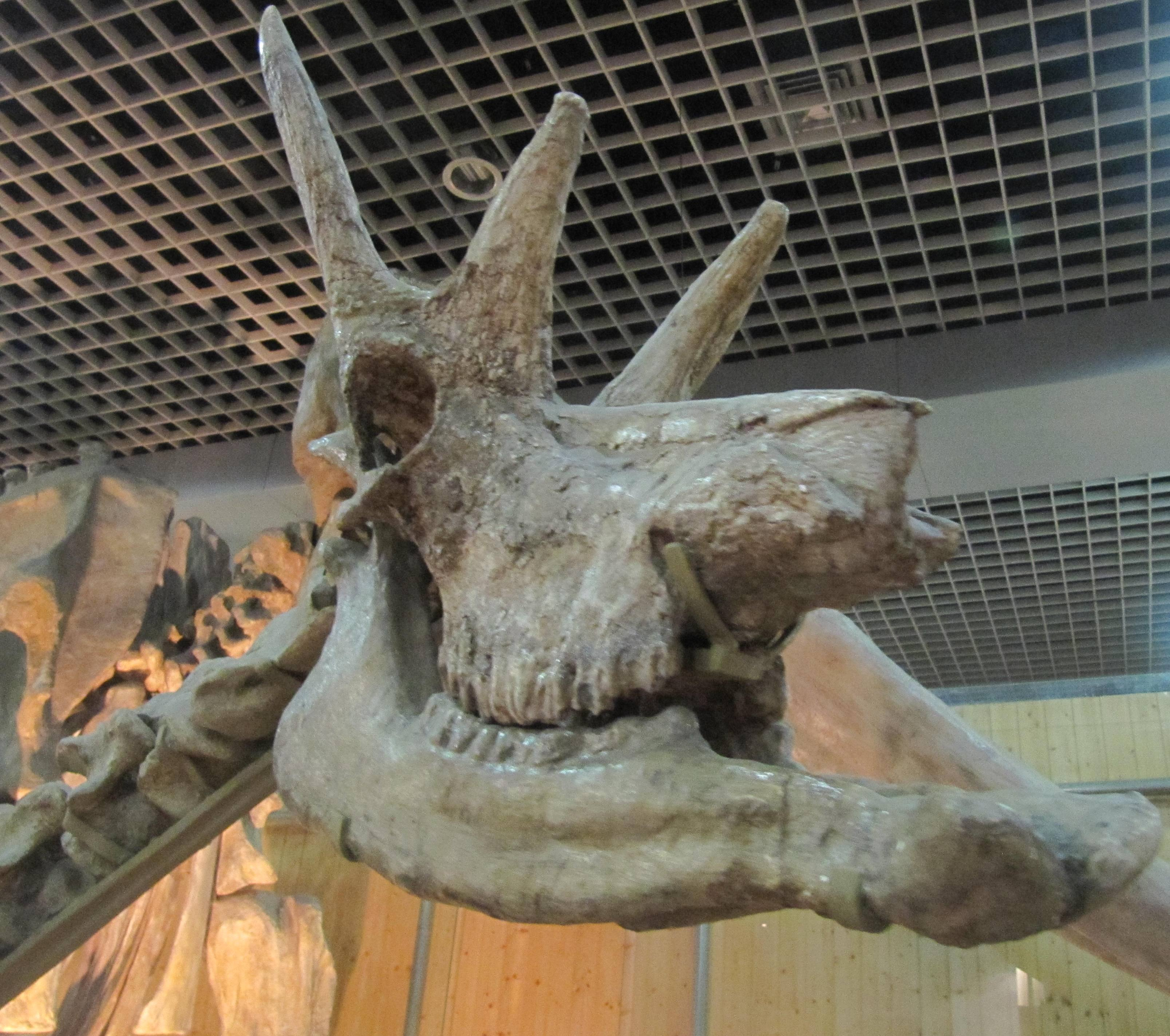 Skull of the extinct Miocene giraffe, Shansitherium tafeli, mounted skeleton from the Beijing Museum